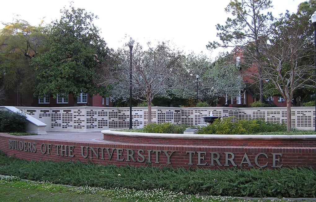 Photo taken by Richard Chambers of the garden area at Georgia Southern University which recognizes people who have made large contributions to the university. Photo taken in March, 2007 with an Olympus C-740 digital camera, photoshoped to half size.